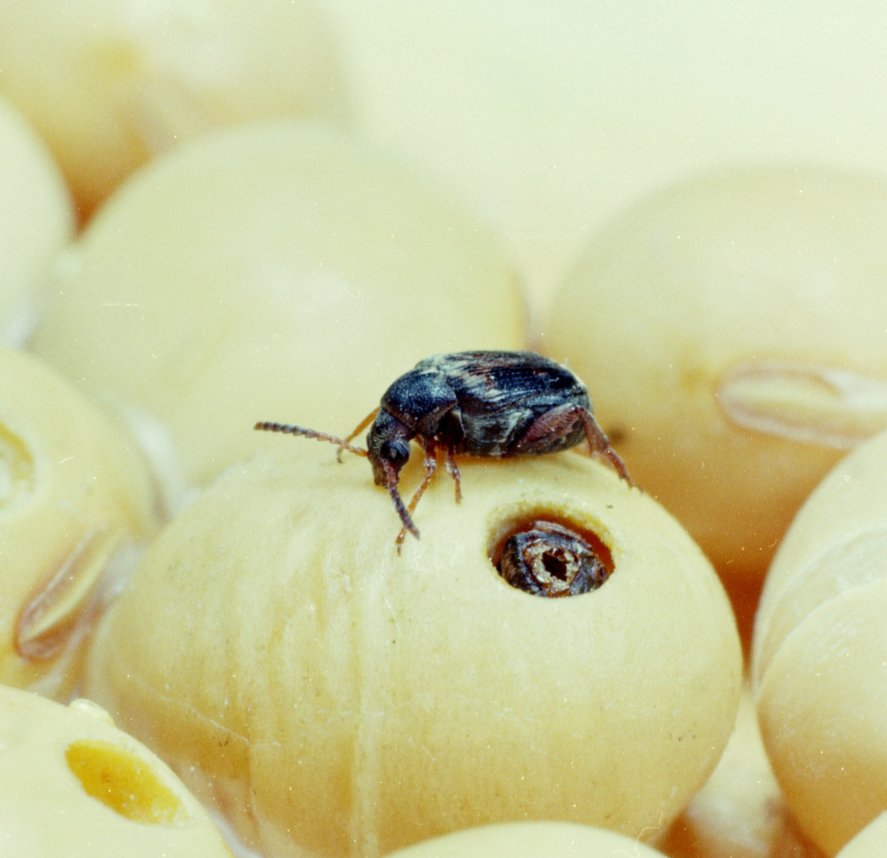 Acanthoscelides obtectus Say Host: soybean Glycine max (L.) Merr. Common Name: bean weevil Photographer: Clemson University - USDA Cooperative Extension Slide Series, , United States Contact: Pat Zungoli, Clemson University Descriptor: Adult(s) Image taken in: United States